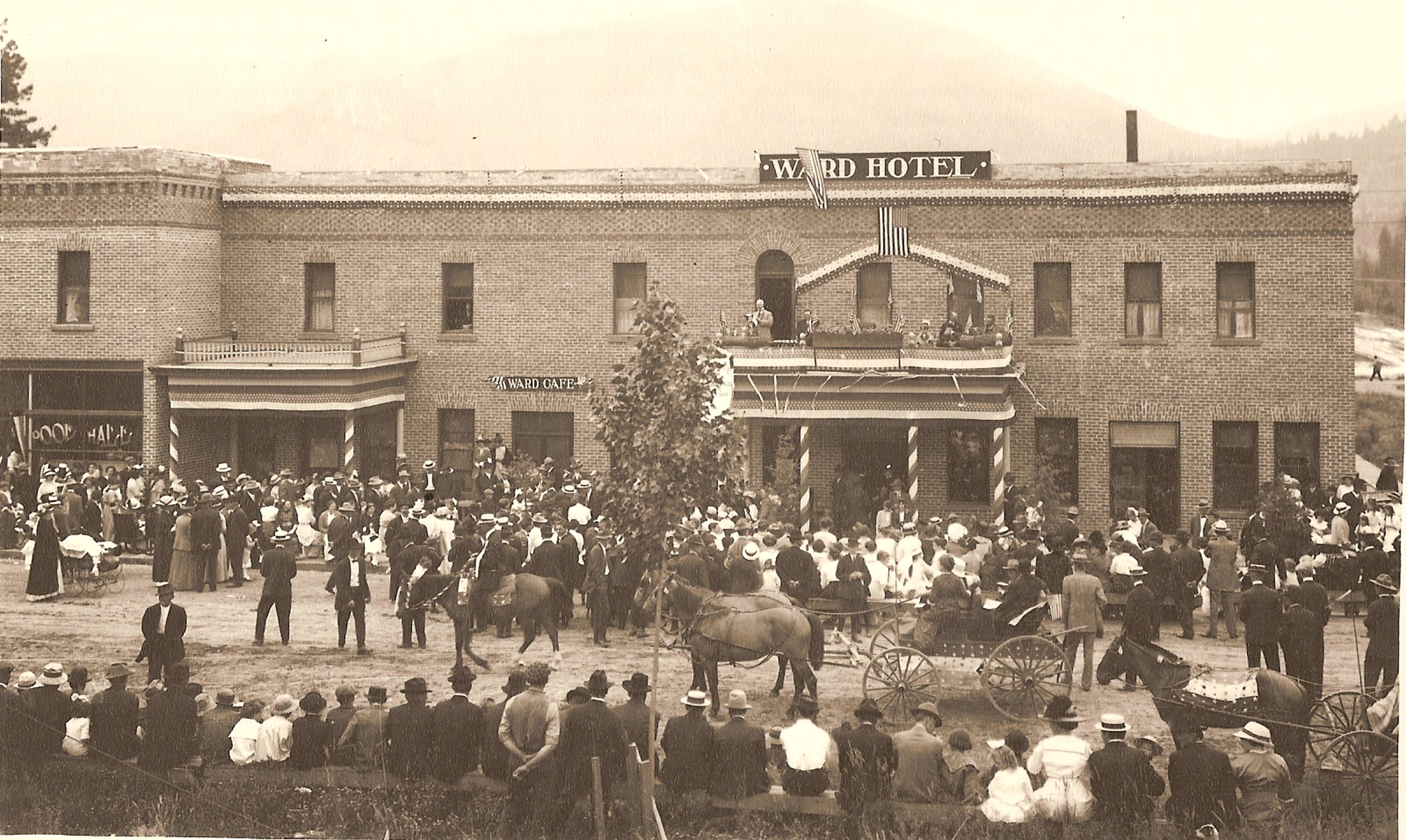 The Ward Hotel in 1912-1913 was the center of civic activity on Main Street in Thompson Falls, Mt.